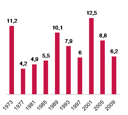 Electoral results of the Norwegian Socialist Left Party since 1973.